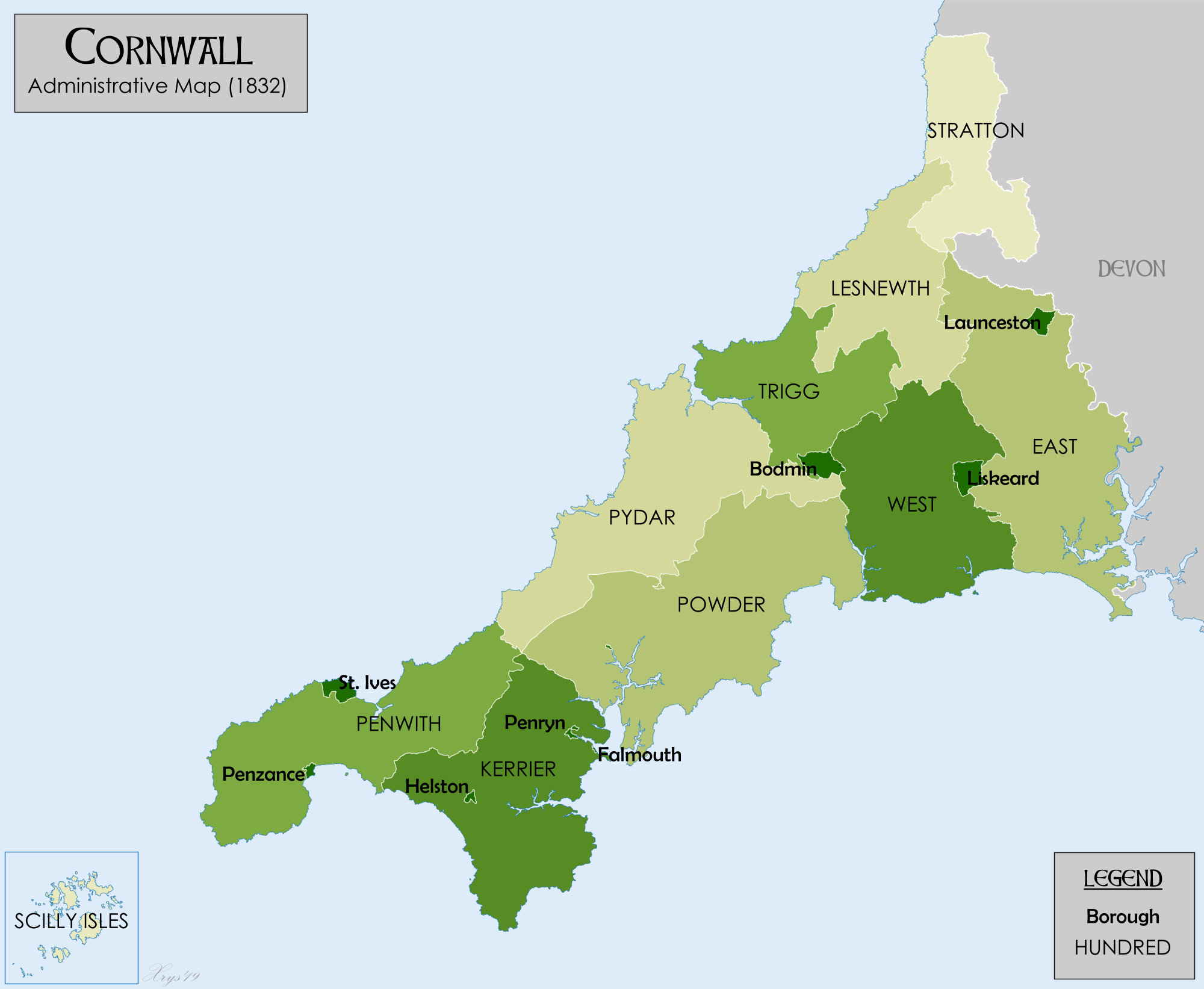 Administrative map of Cornwall in 1832 showing Hundreds. Also showing extant Boroughs. Hundred boundaries from University of Nottingham English Place Name Society. Source data for parish boundaries - Kain, R.J.P., and Oliver, R.R. (2001) "Historic parishes of England and Wales". Unit names and Borough Boundaries from Vision of Britain website.